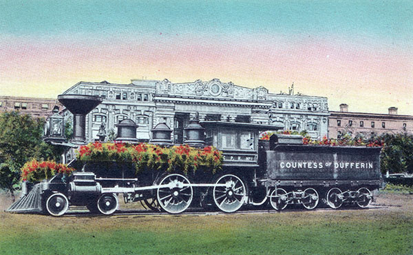 Countess of Dufferin in front of the Canadian Pacific Railway Station